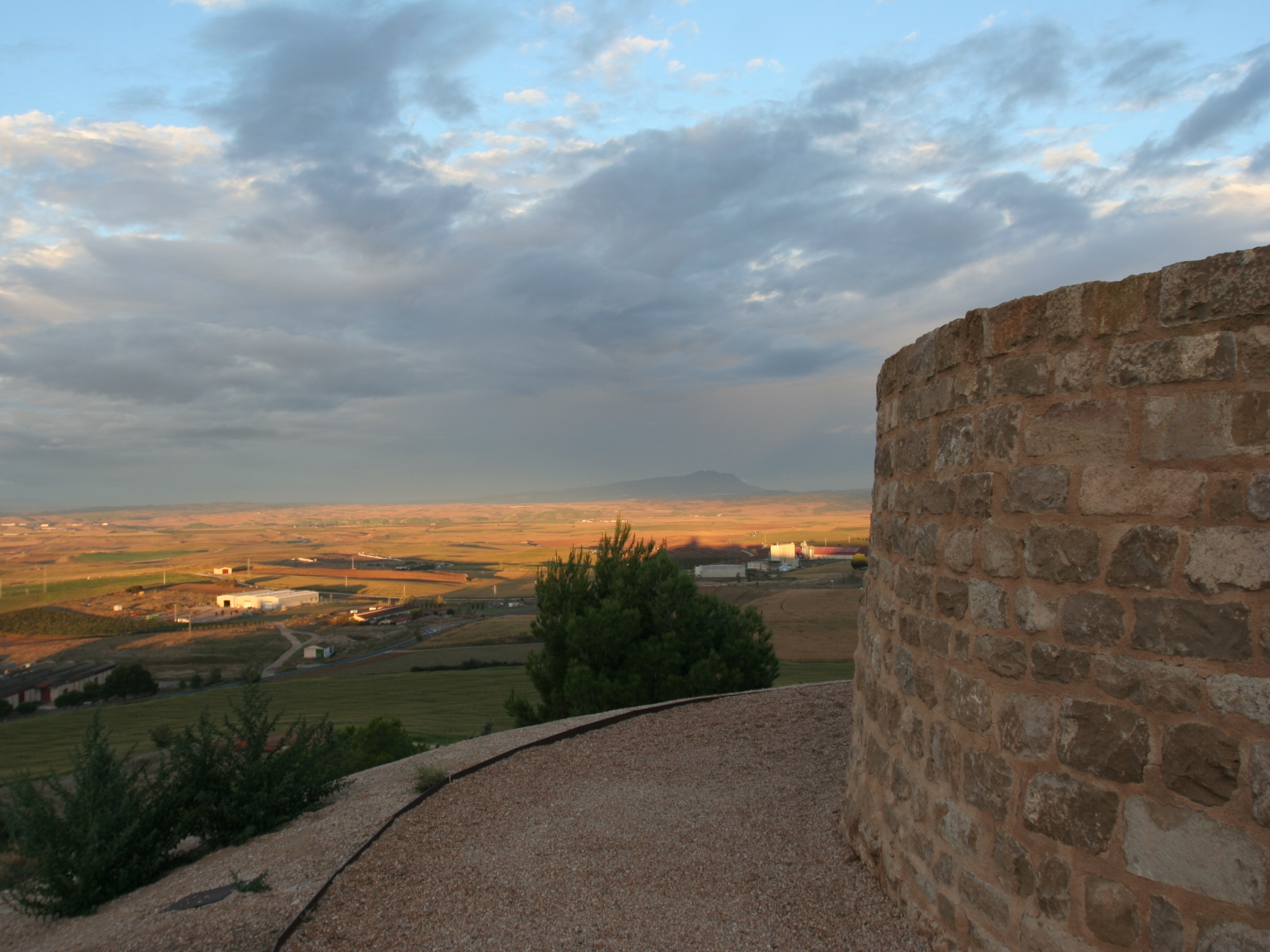 view from the Artajona castle towards Montejurra